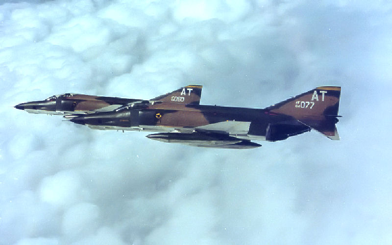 32d Tactical Reconnaissance Squadron - RF-4C Phantom IIs - RAF Alconbury - 1970